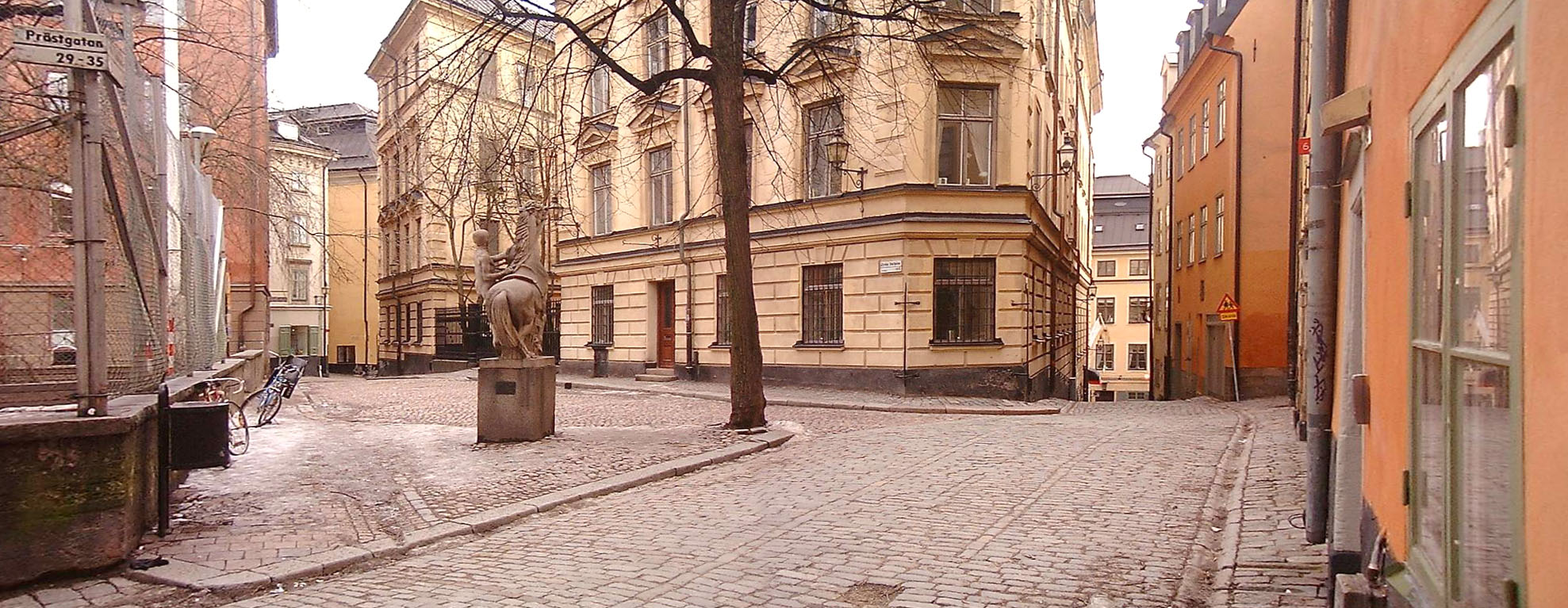 Panoramic view of Tyska Stallplan, Gamla stan, Stockholm. Composite of two photos.